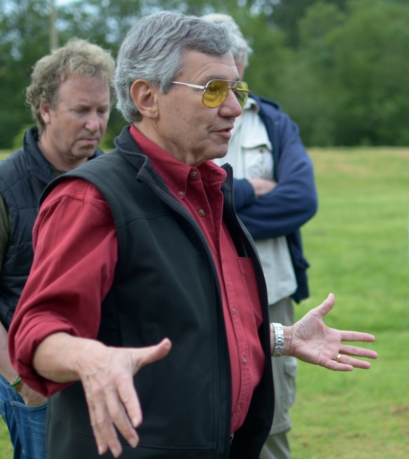 Right before a bald eagle swooped into the meadow in the background. Martyn Stewart's Nature Sound Workshop at the Center For Urban Horticulture in Seattle, WA